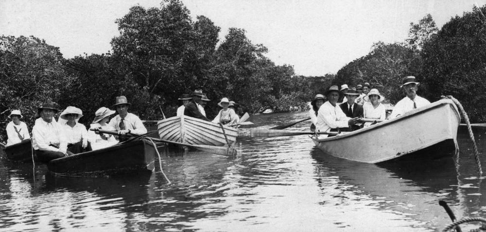 Boating party at Bowen, 1910-1920